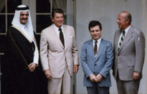 (left to right) Prince Saud al Faisal, Ronald Reagan, Abd al-Halim Khaddam, George Shultz